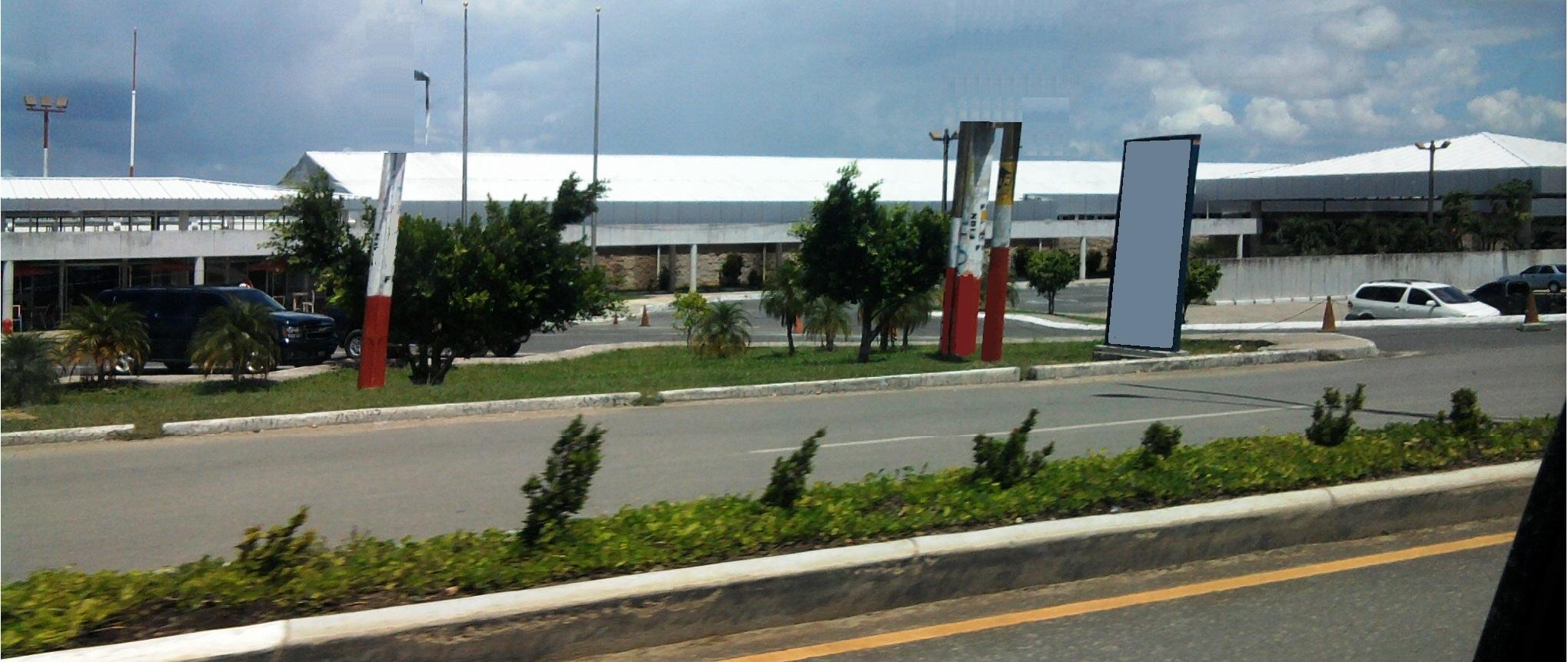 Part of west terminal of mundo maya international airport, in Central Area of Petén, Guatemala